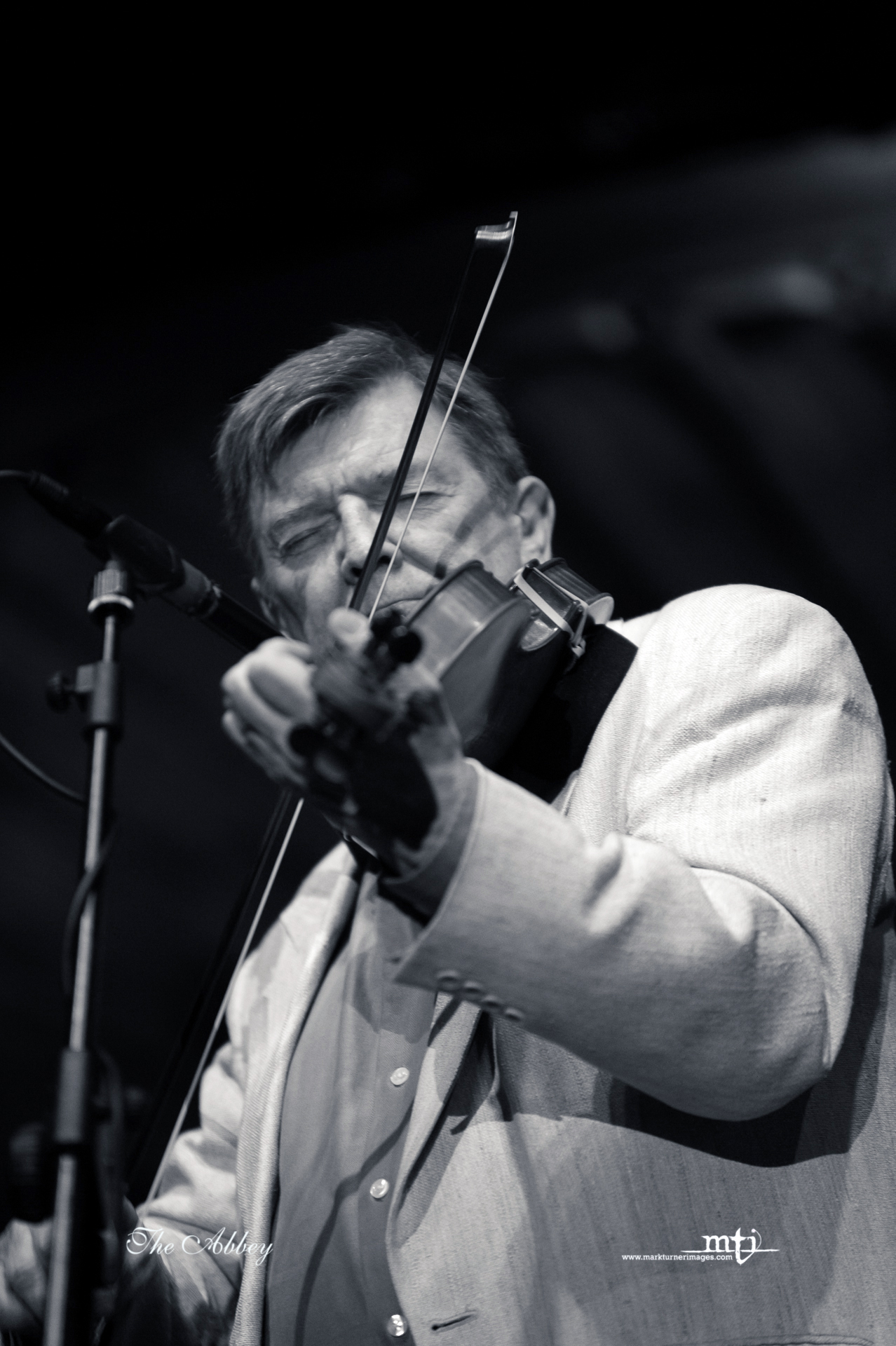 Kevin Burke performing live at The Abbey on O'Hanlon Place in Nicholls, Australia, 13 May 2014